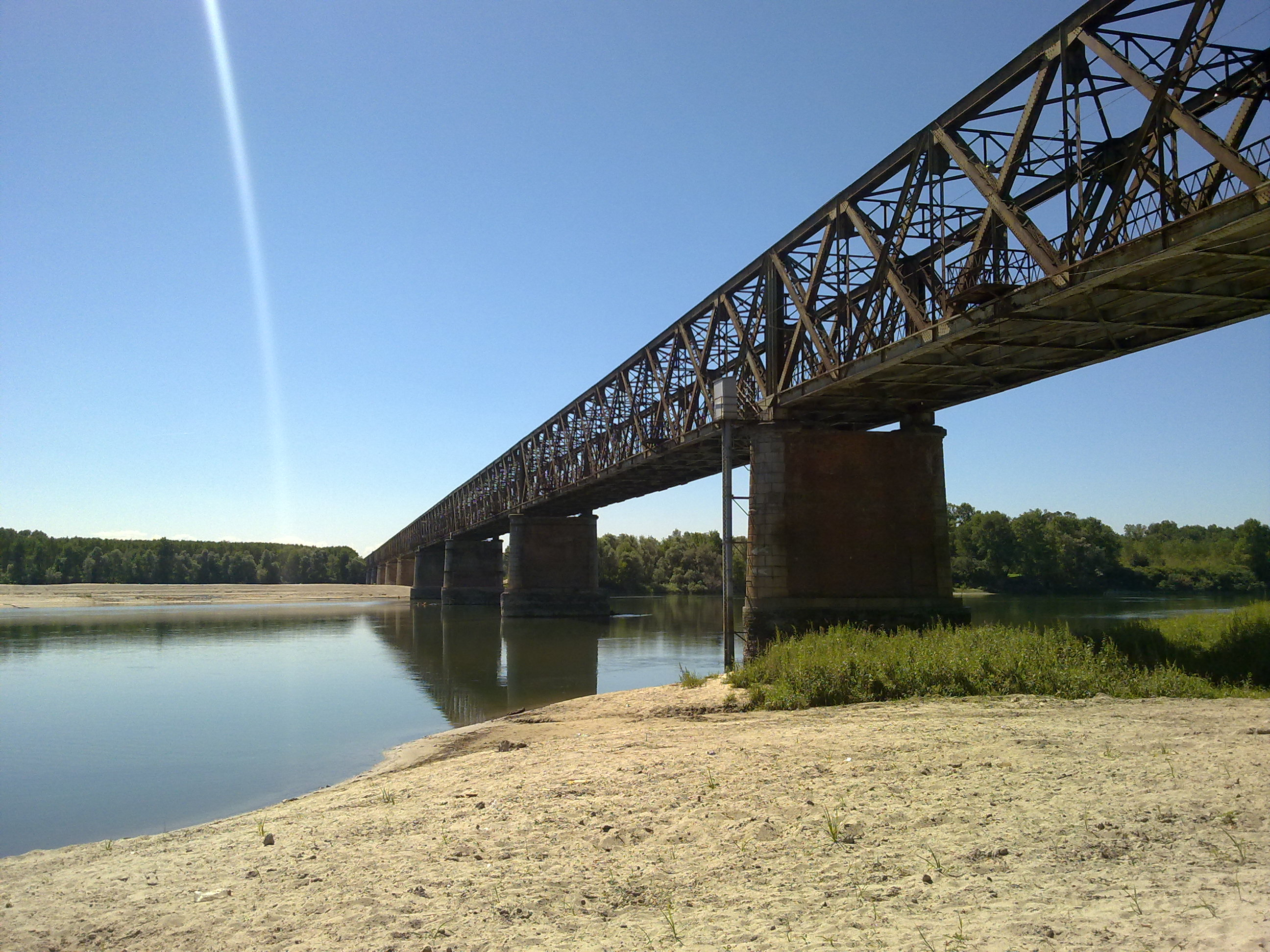 "Ponte della Becca" (seen fron northern side of Ticino): an over-deck steel truss bridge built in 1912 over the confluence between rivers Ticino e Po in northern Italy (Lombardy), near Pavia.